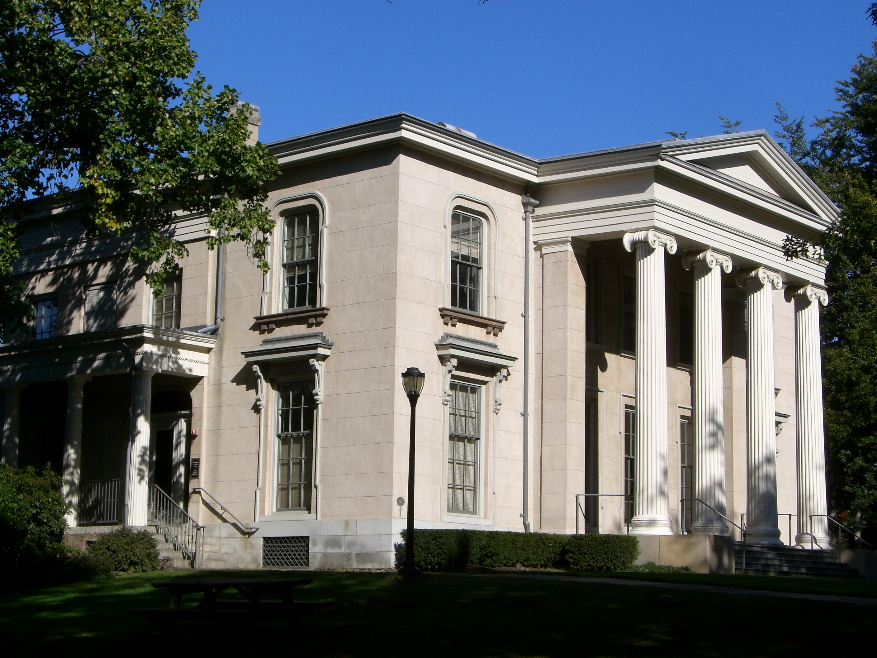 Skinner House, completed in 1832, 46 Hillhouse Avenue, Yale University, New Haven, CT